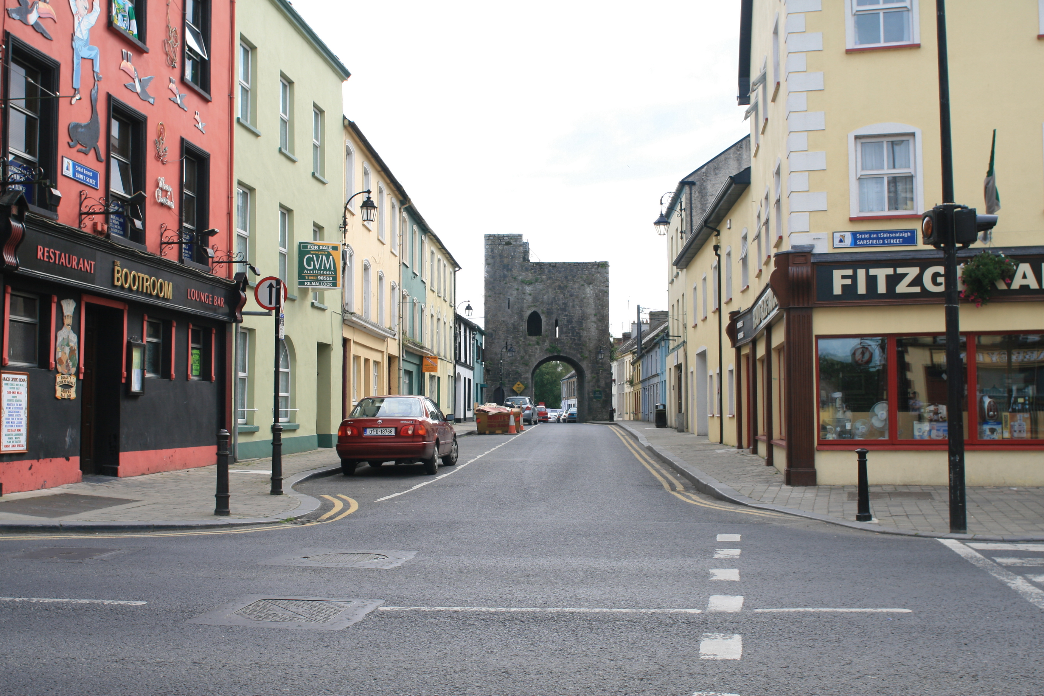 Blossom Gate at Emmett Street in Kilmallock.